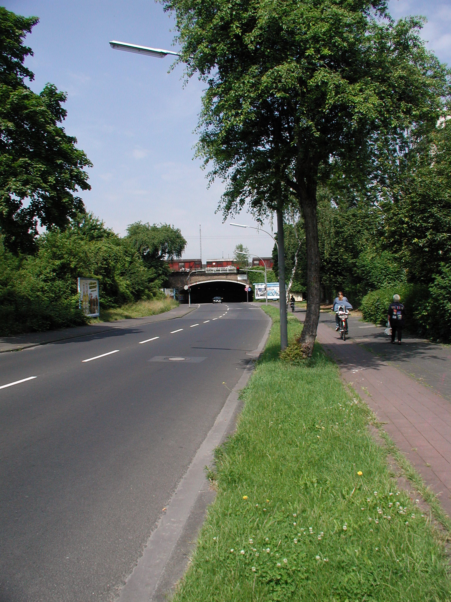 Cologne-Zollstock, Zollstockgüttel railway underpass (absolute altitude 3,5 m)